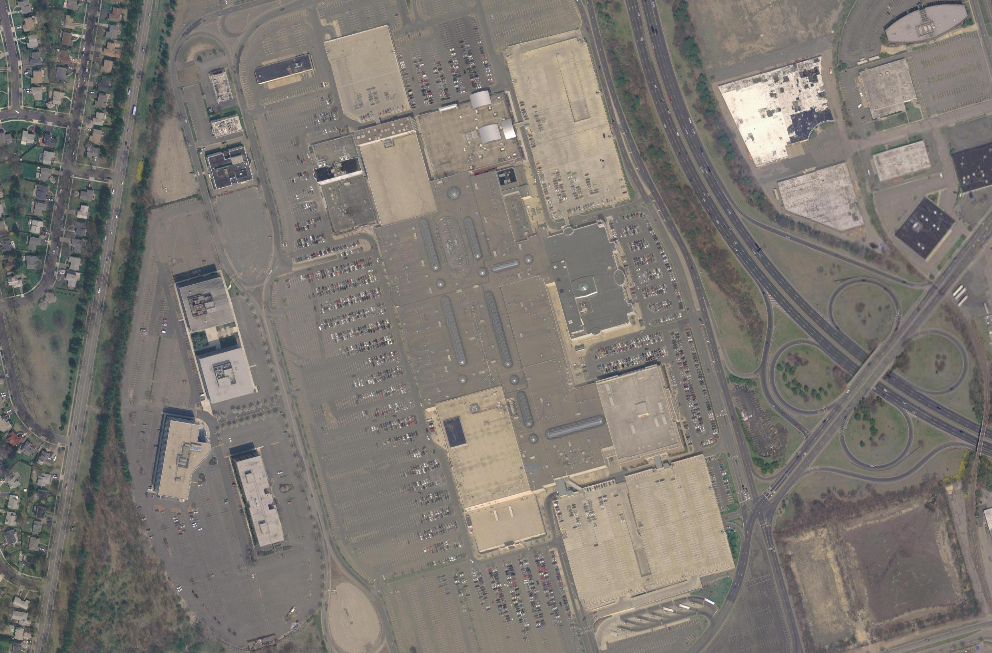 Roosevelt Field Mall satellite view, nasa world wind 1.3.5